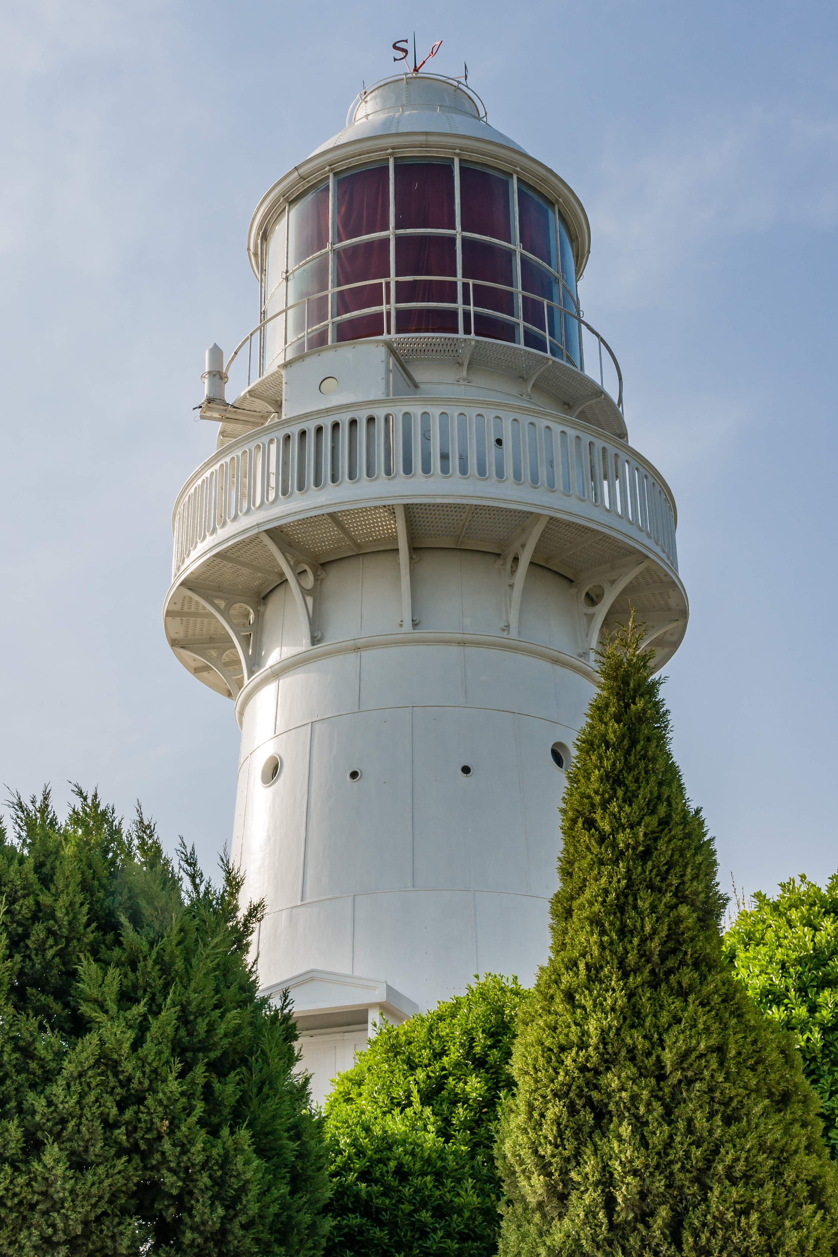 Lushunkou, Liaoning, China: Laotie Mountain Lighthouse